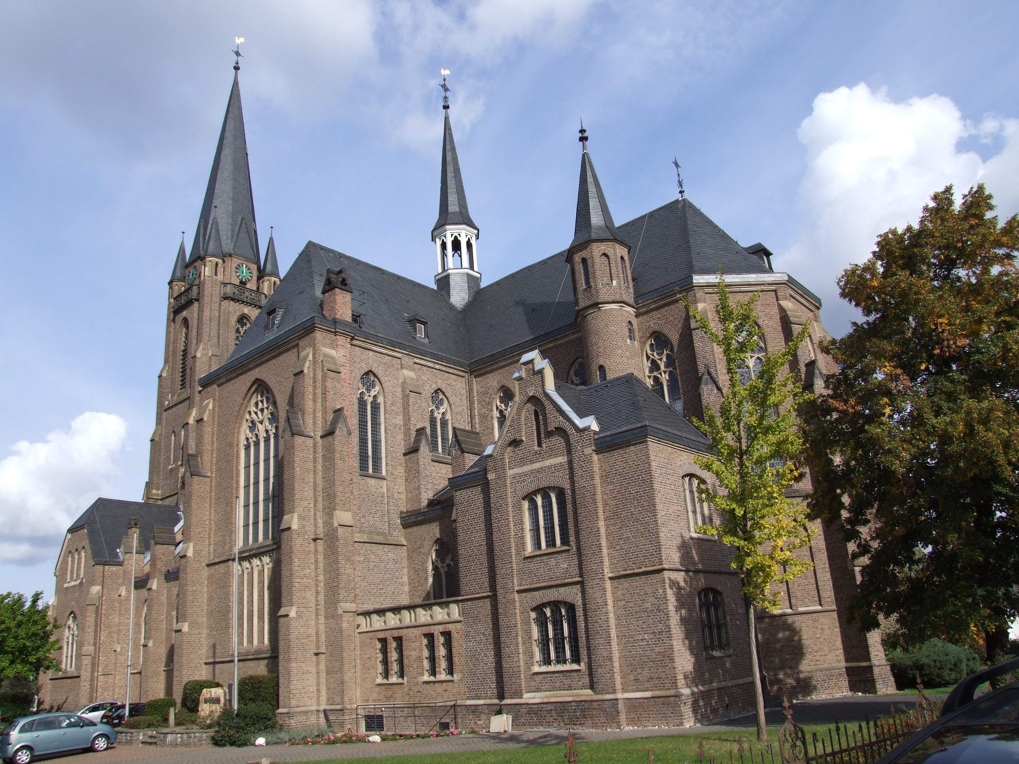 Church in Bonn-Endenich, Germany.